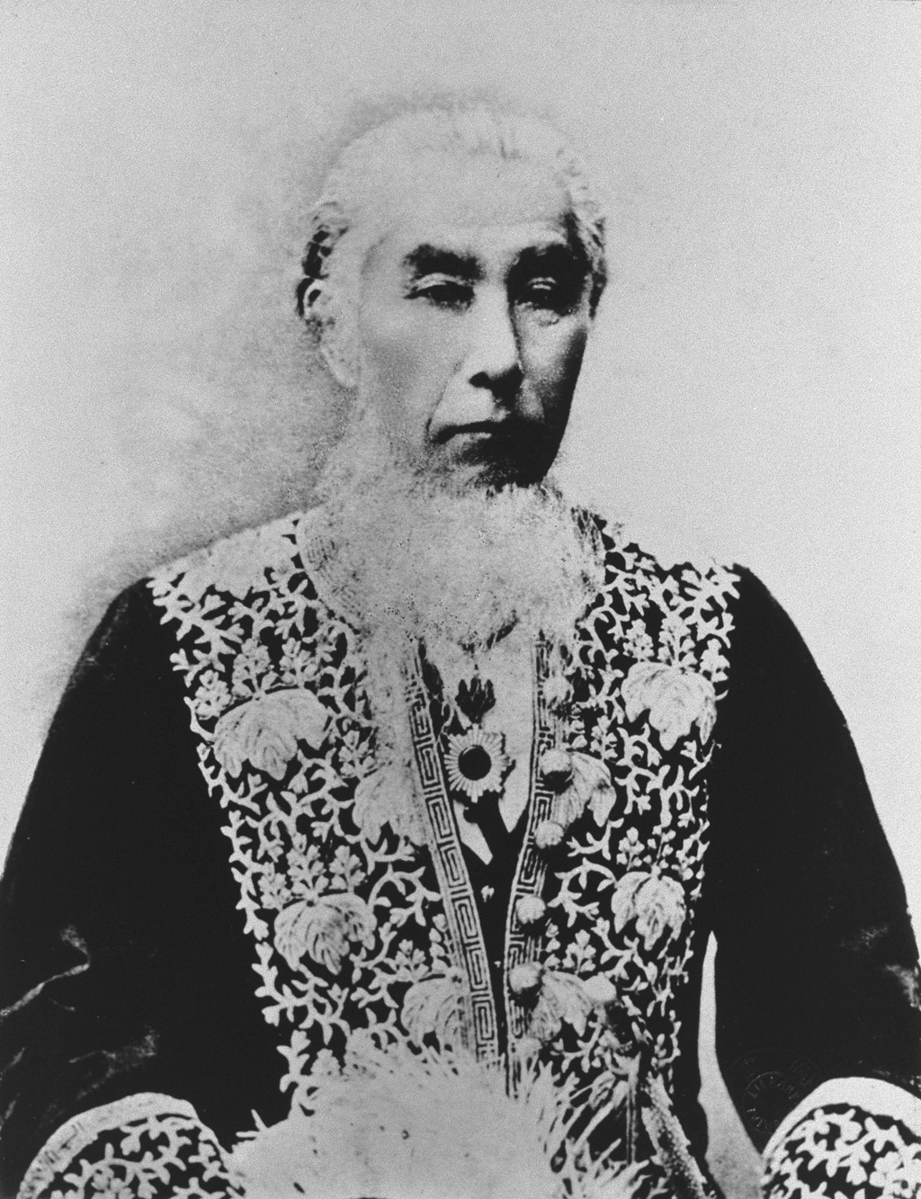 Portrait of Motoda Nagazane (元田永孚, 1818 – 1891)